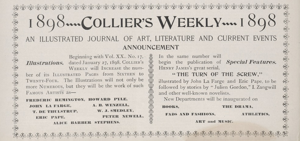 Notice in Collier's Weekly that describes new features in the issue beginning January 27, 1898, including an increase in pages, more illustrations, new departments, and the beginning of Henry James' novella The Turn of the Screw